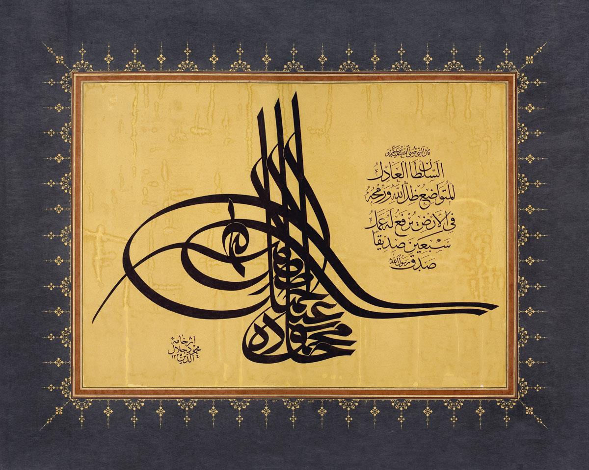 Ottoman Calligraphic Panel, 'Mahmud Celaleddin Efendi', 1811 (Osmanlı Celî Sülüs Hat Levha)